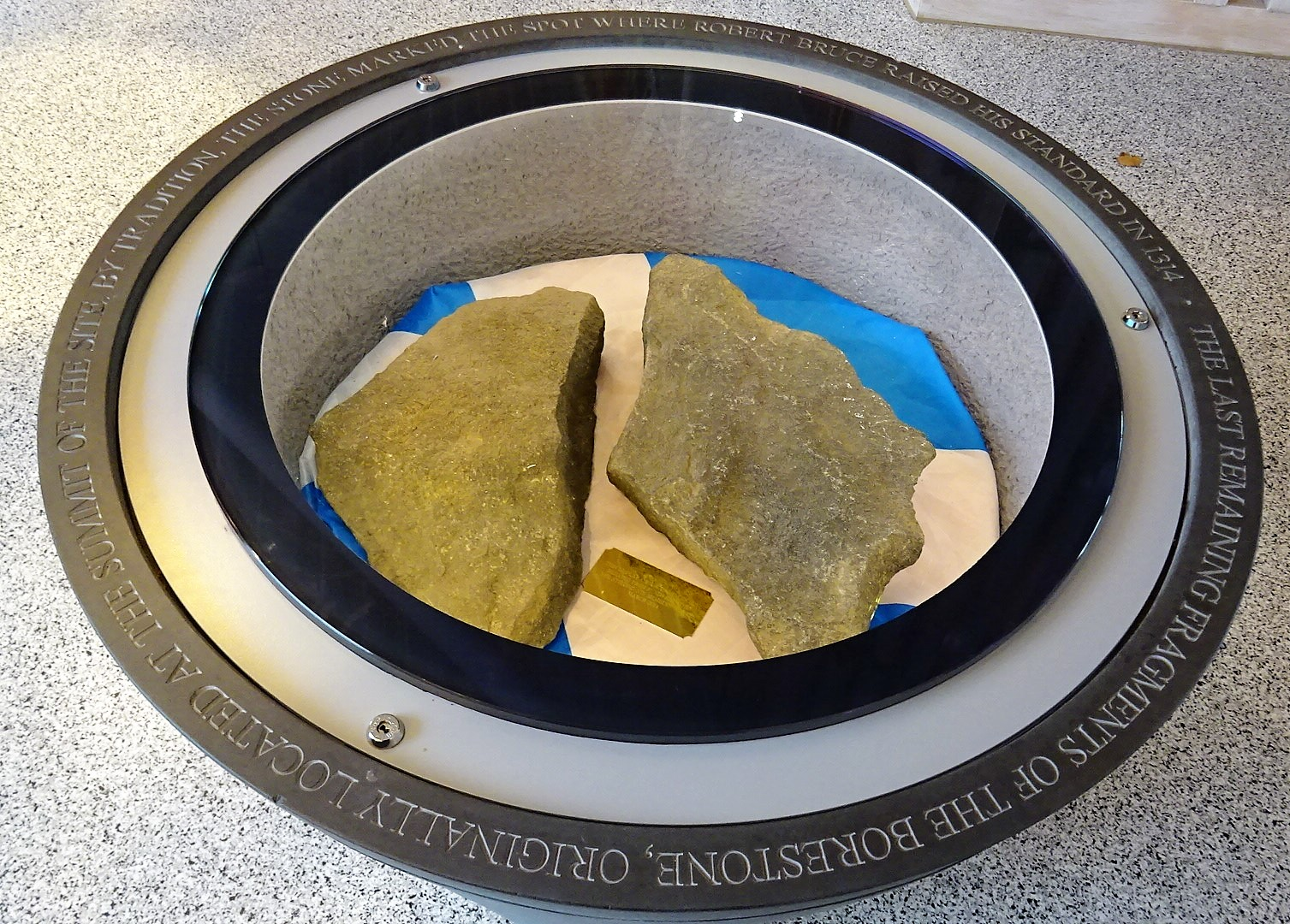 The remains of the Borestone, Bannockburn Battlefield, Stirling, Scotland. Robert the Bruce is said to have stood his standard with its base in an old millstone, called the 'Borestone.'